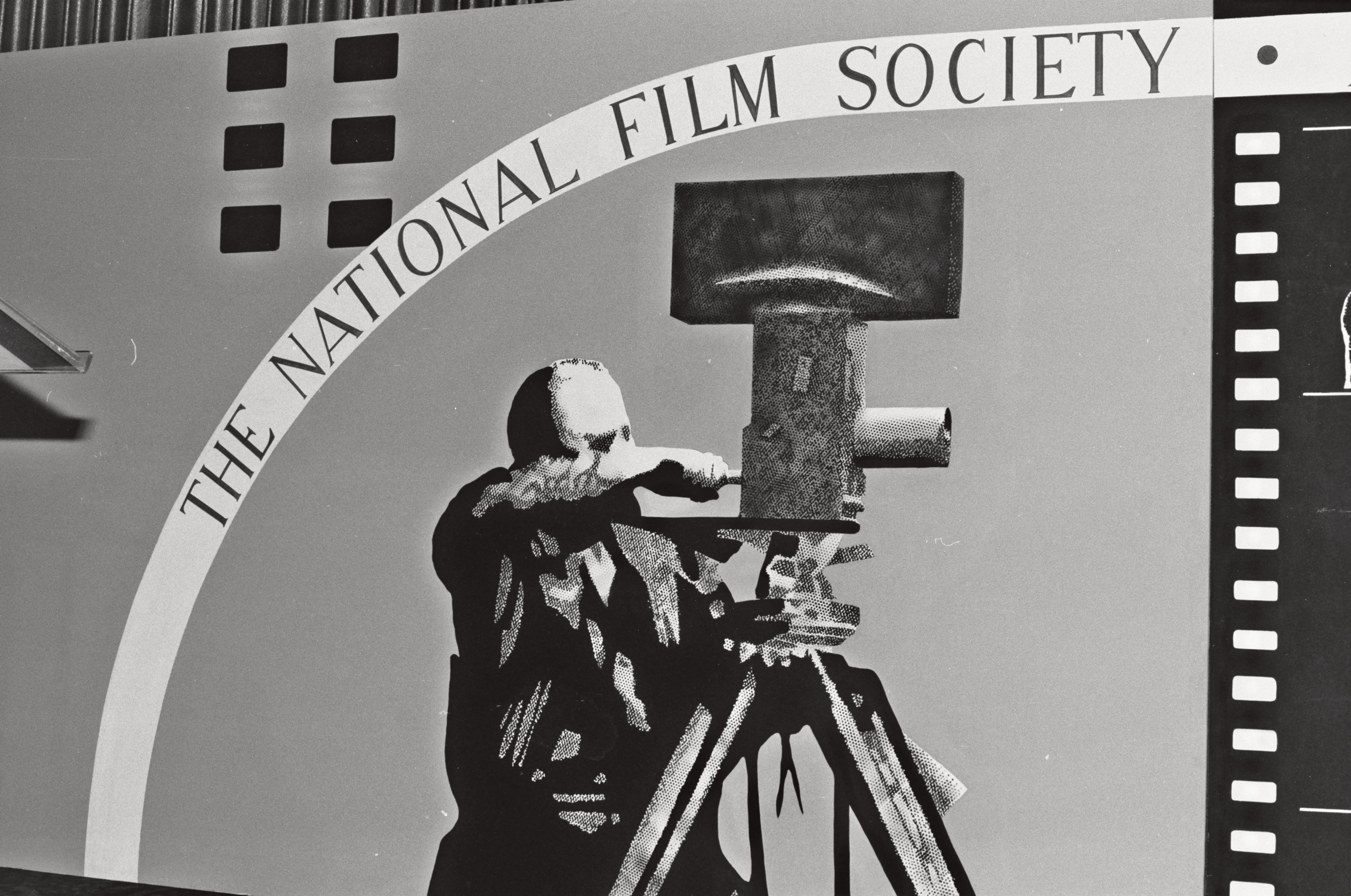 National Film Society convention, May 1979. NOTE: Permission granted to copy, publish, broadcast or post any of my photos, but please credit "photo by Alan Light" if you can. Thanks